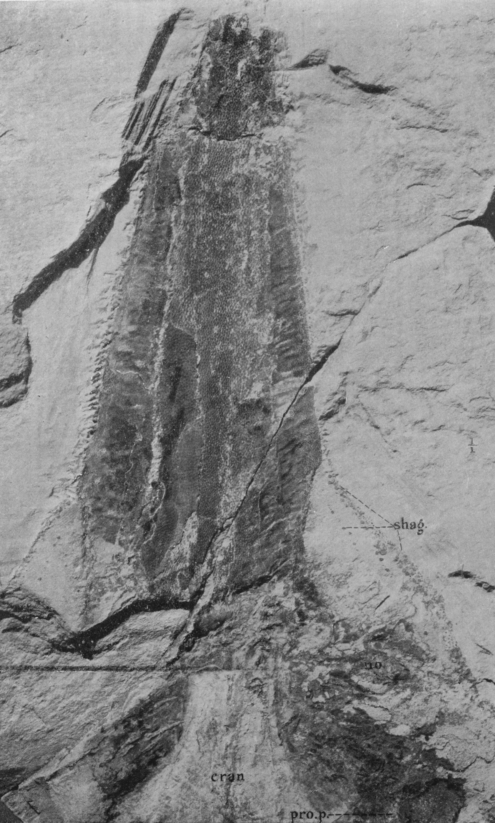 Micropristis solominis (synonym Sclerorhynchus solominis) — from the Mount Lebanon Range, Lebanon. Rostrum and portion of cranium and pectoral fin.